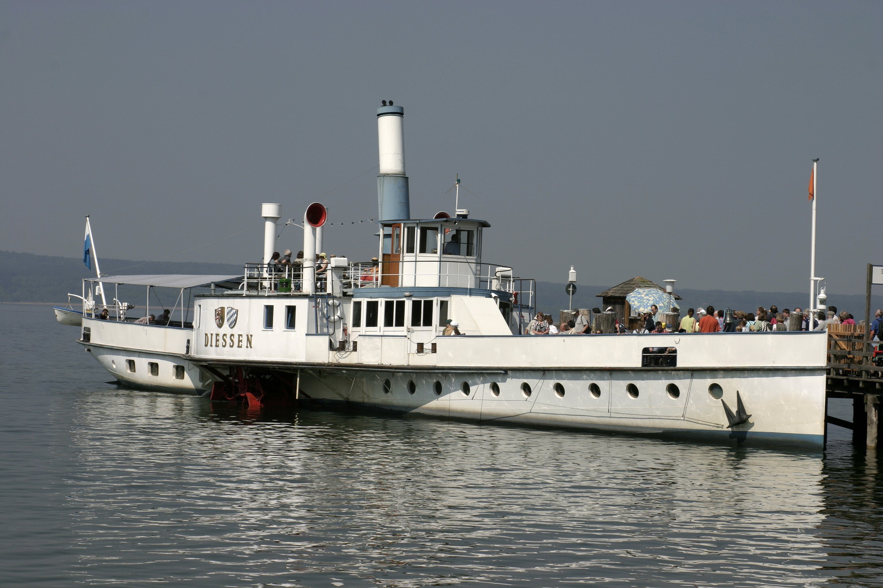 Paddleboat Diessen on the Lake Ammersee